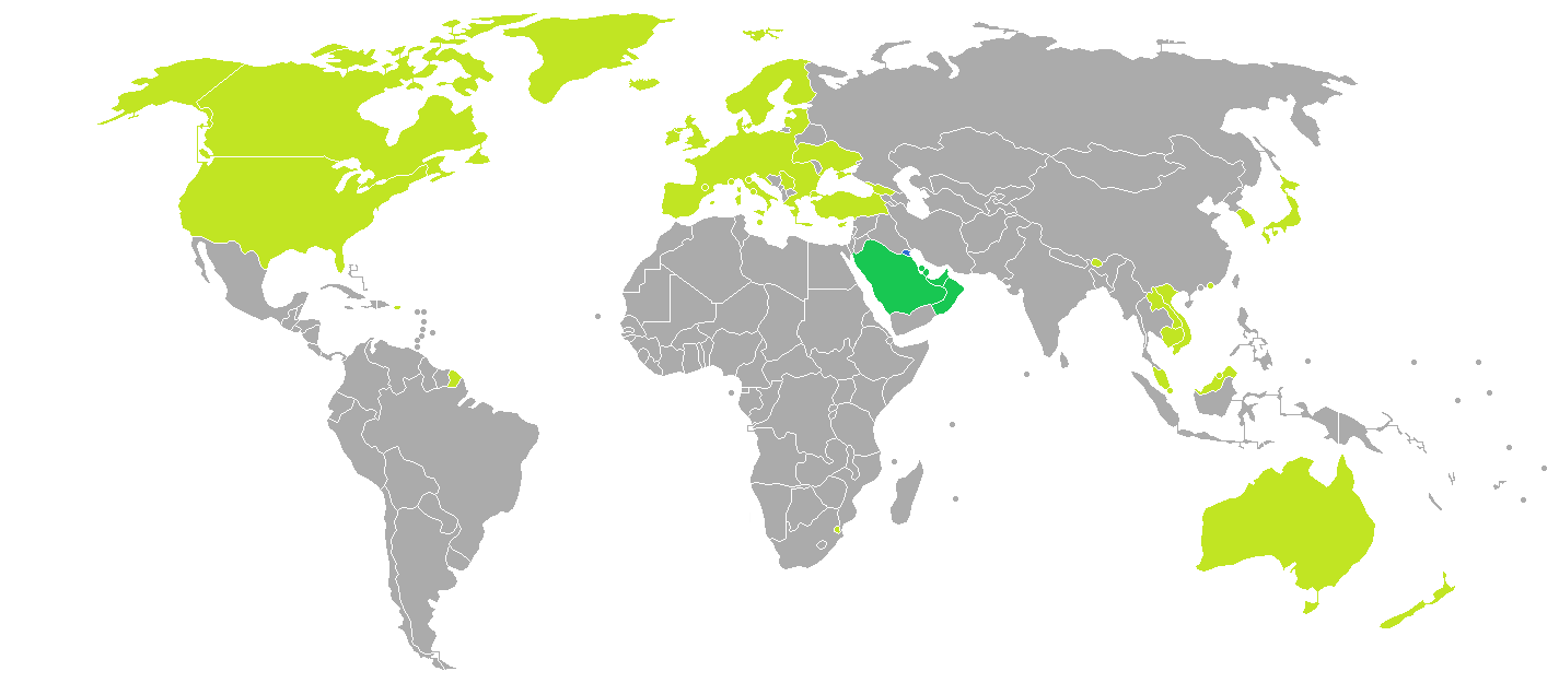 Visa policy of Kuwait Kuwait Visa-free Visa on arrival or eVisa Visa required